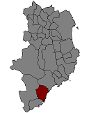 Location of Castell-Platja d'Aro in Baix Empordà